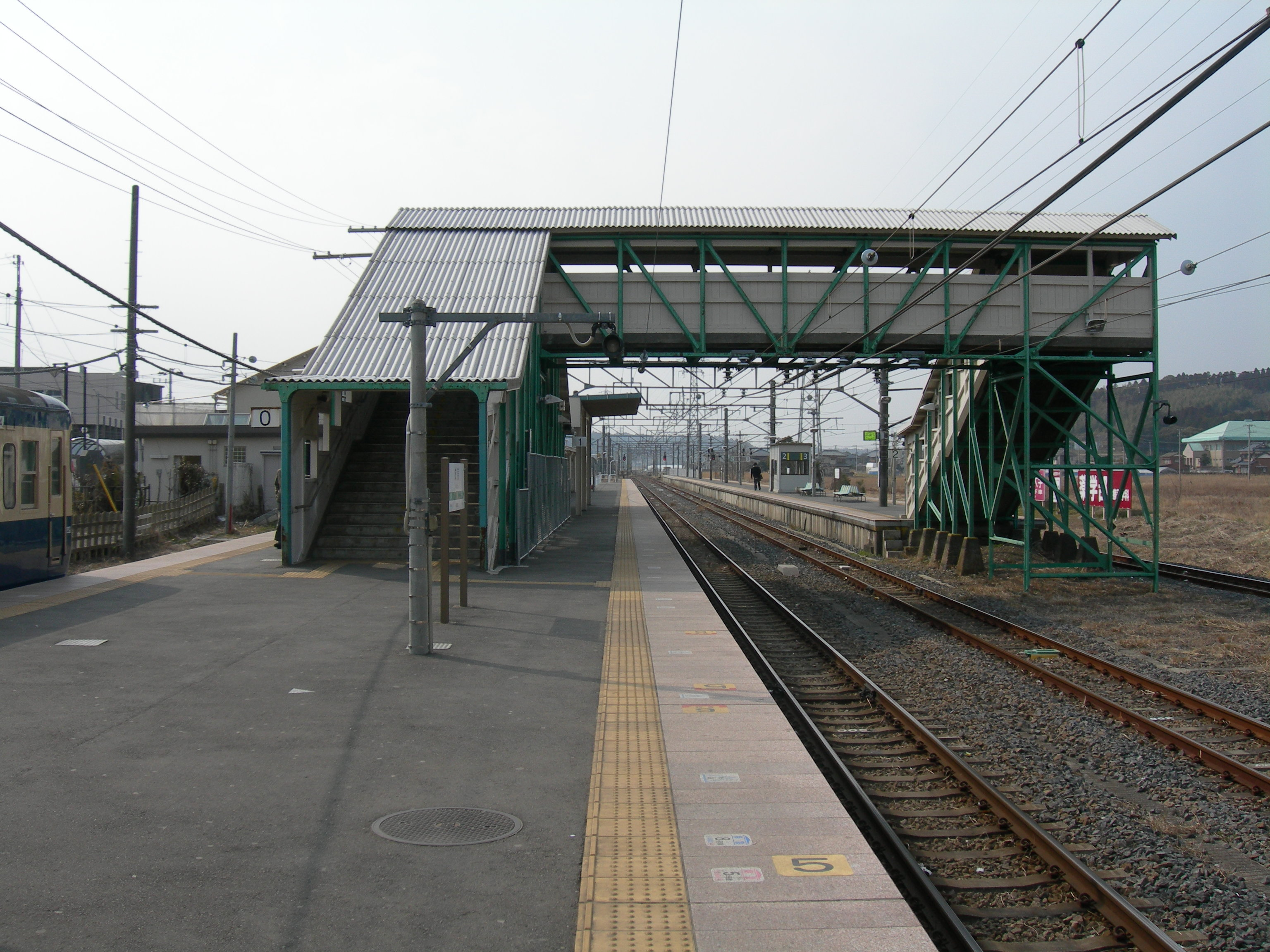 Naruto Station platform